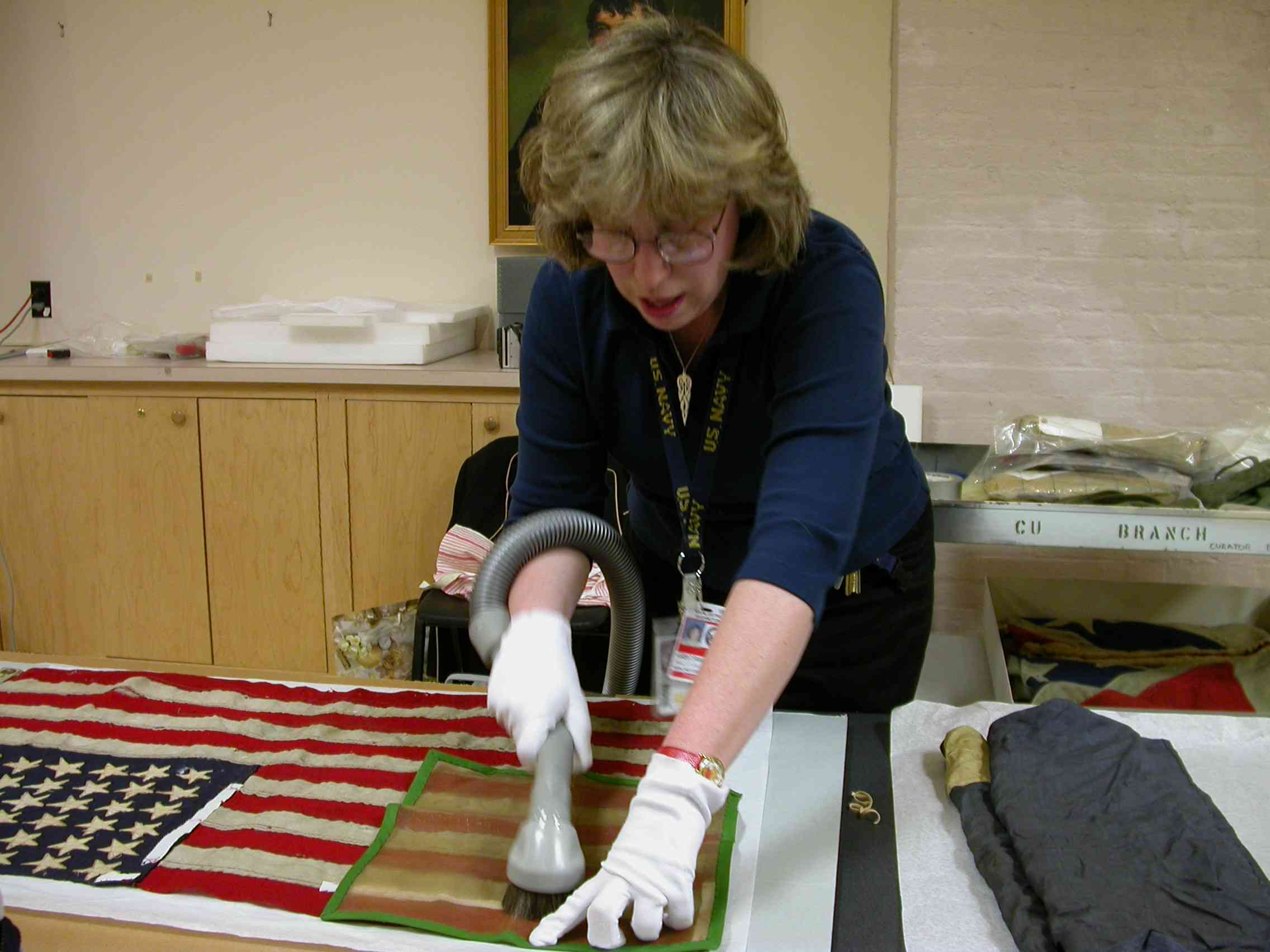 Wash., D.C. (Mar. 28, 2003) -- Ms. Karen France, Naval Historical Center Curator, gently vacuums a flag using protective netting during a textile conservation workshop held in the Navy Museum, during a 1-day demonstration of several preservation techniques where museum staff as well as visitors learned how to further prolong the life of historic collections. U.S. Navy photo by Melanie Pereira. (RELEASED)